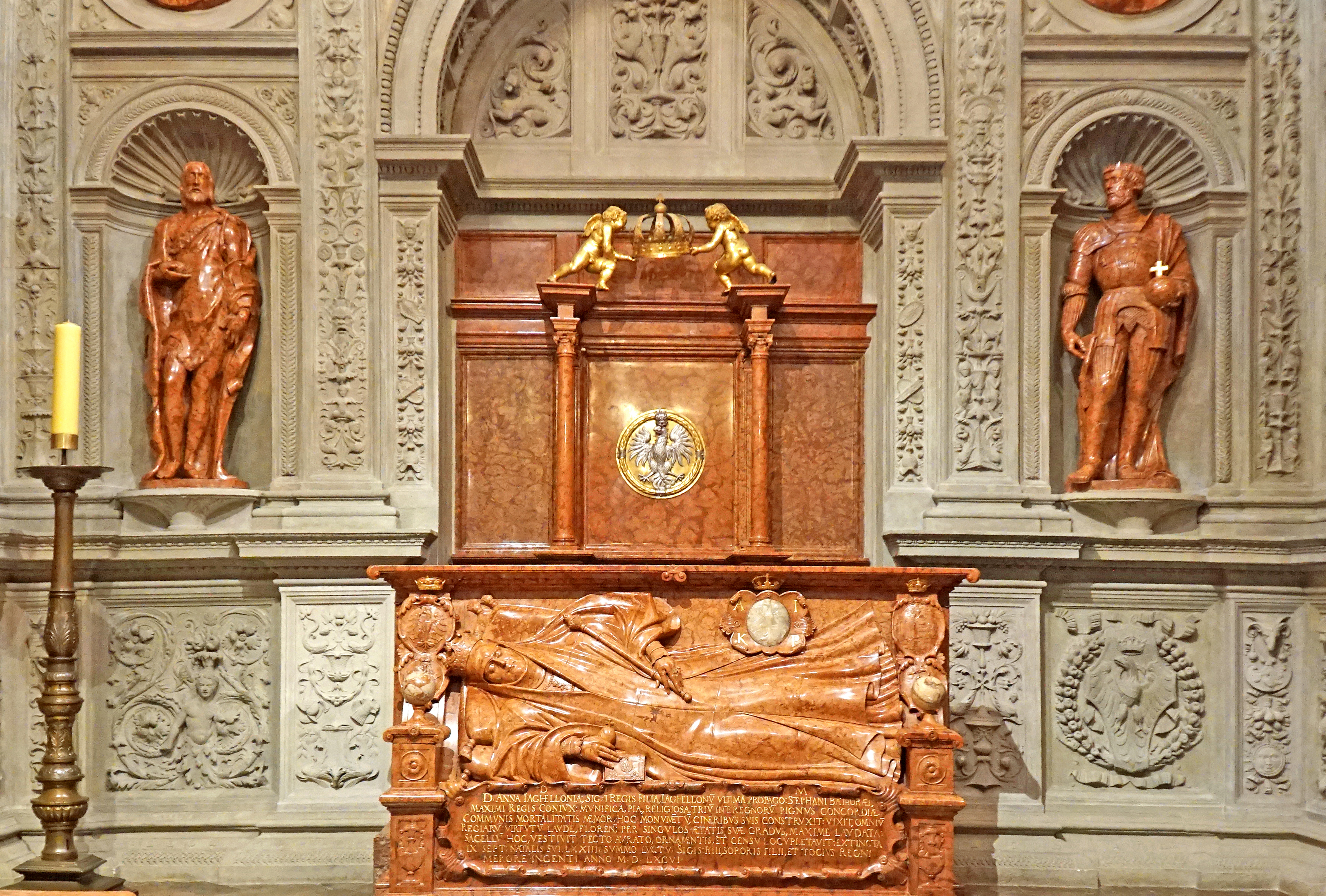 PLEASE, NO invitations or self promotions, THEY WILL BE DELETED. My photos are FREE to use, just give me credit and it would be nice if you let me know, thanks. Anna Jagiellonka tomb in the Sigismund's Chapel completed while she was still alive. (18 October 1523 – 12 November 1596) Wawel Cathedral, home to royal coronations and resting place of many national heroes; considered to be Poland's national sanctuary.